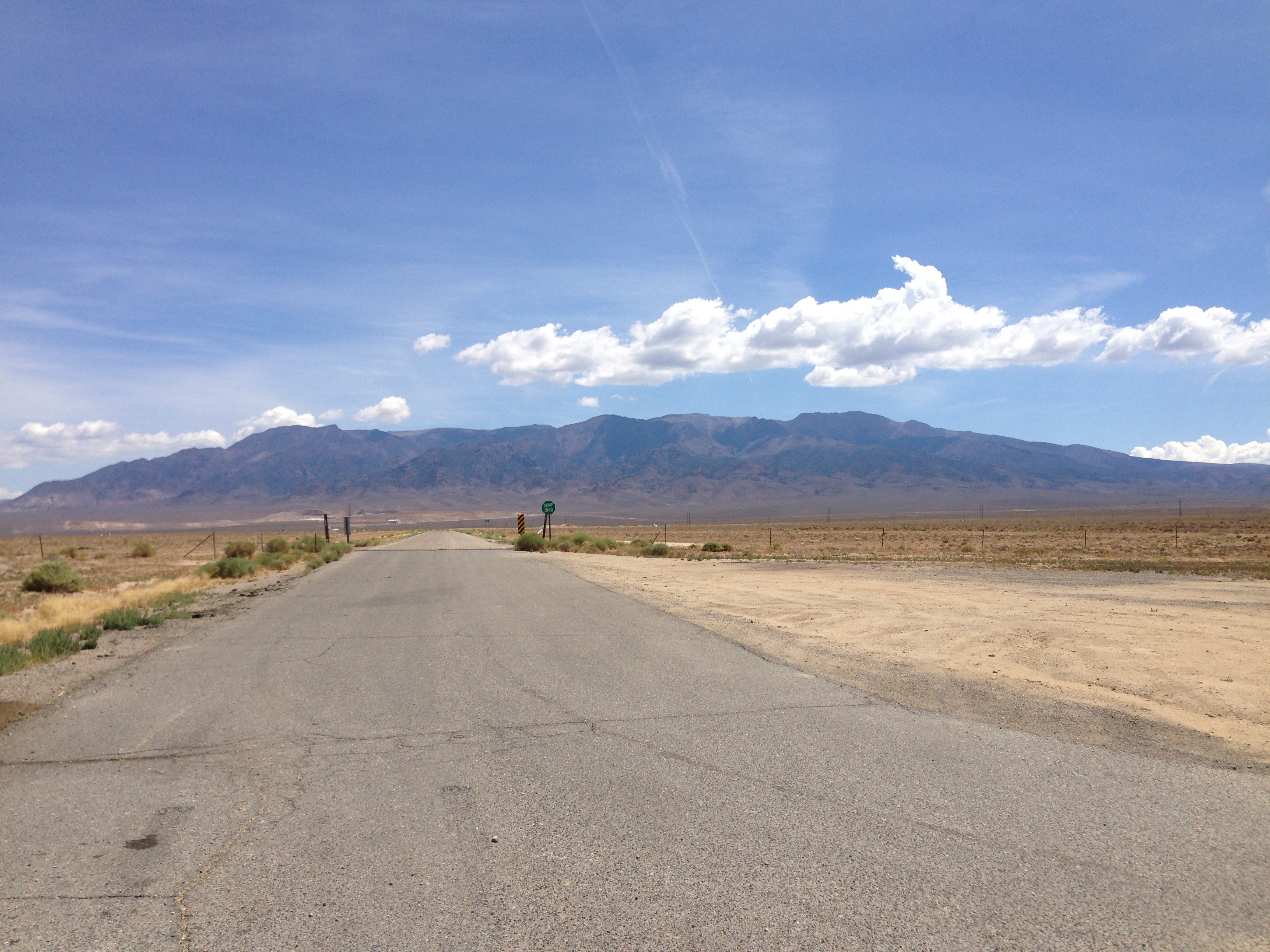 View of Mount Jefferson in the Toquima Range from Nevada State Route 376 (Tonopah-Austin Road) south of Carvers, Nevada